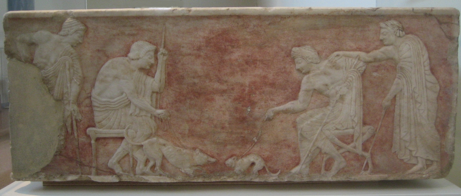 fighting pets